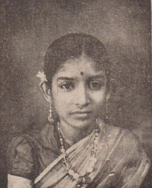 Jikki (1935–2004) was a popular Indian playback singer.